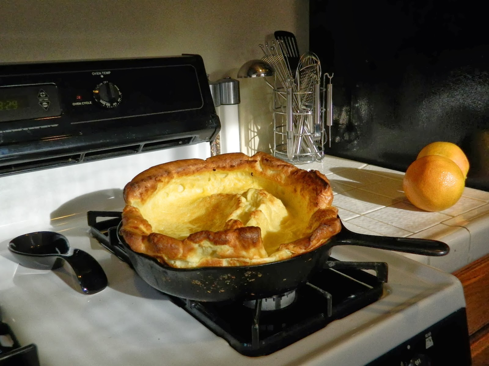 A Dutch baby pancake fresh out of the oven and ready for breakfast; grapefruit in the background.